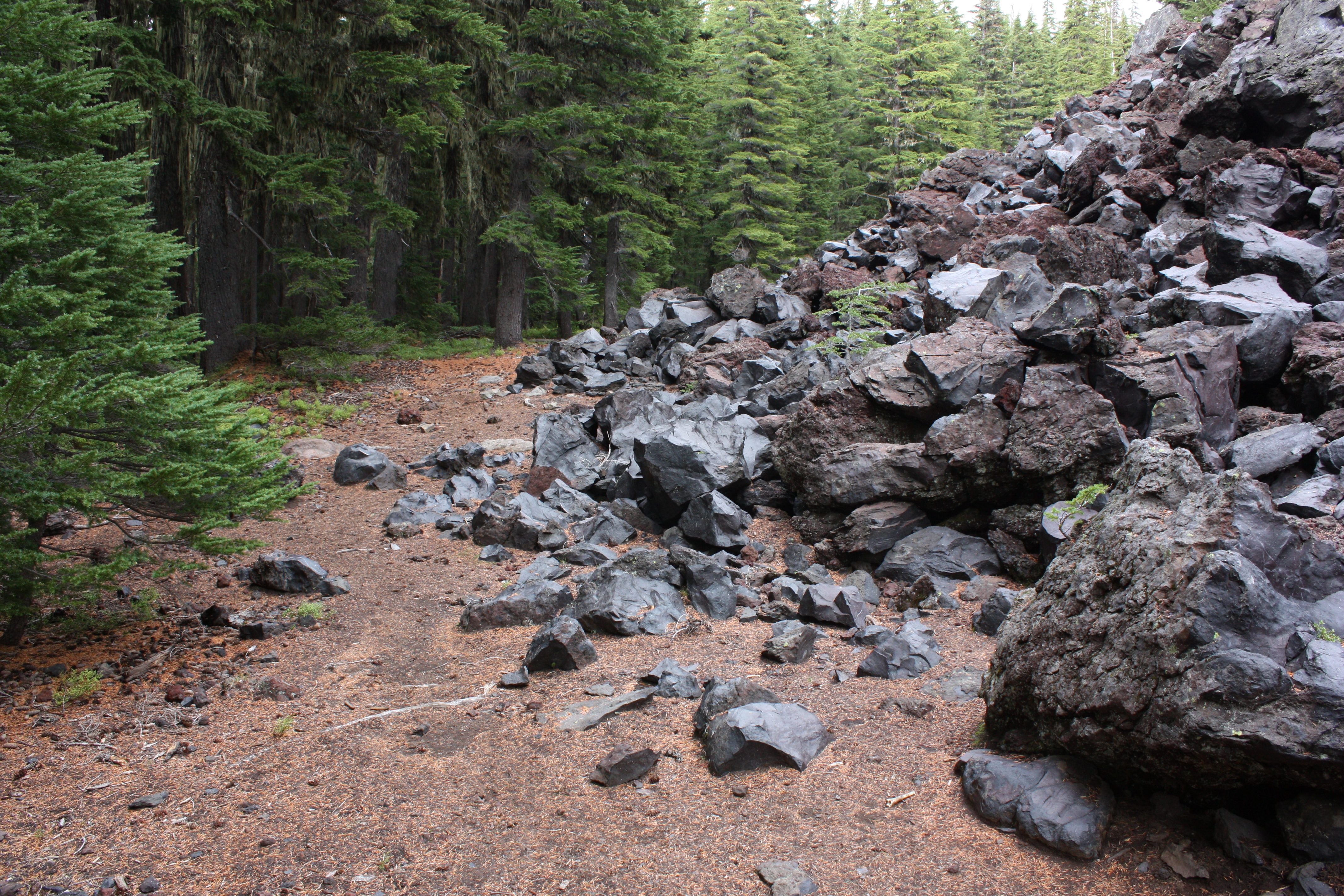 Collier Cone flow; Basaltic andesite and andesite of Collier Cone (Qybc), 1,600±100 14C yr B.P.; Tsuga mertensiana